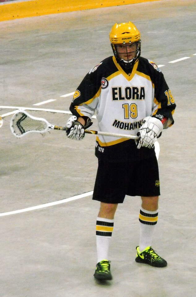 These images of Ontario Junior B Lacrosse Action action during the 2014 season are taken by Devan Mighton.